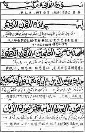 Quran with Chinese translation recorded in both Arabic and Chinese scripts. Sinophone Muslims developed a number of distinct written traditions. One of these is known as Chinese madrasa language (jingtang yu), which is simply written Chinese with a formalised vocabulary of Islamic terms. Another is known as "little script" (xiaojing), which broadly speaking is Chinese of any description written in Arabic script, but here is specifically a transliteration of Chinese madrasa language into Arabic script. The interlinear translation of the Quran shown here was produced by Ma Zhenwu, an octogenarian Hui akhund from Dachang, Hebei